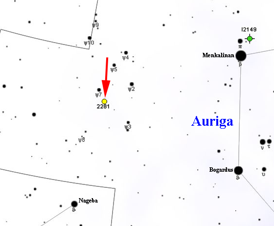 Map of NGC 2281